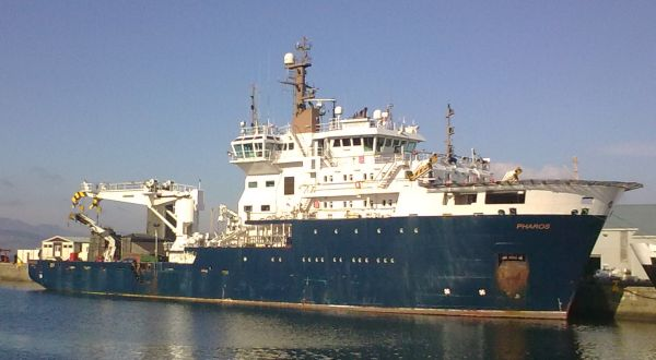 Northern Lighthouse Board tender NLV Pharos at James Watt Dock, Greenock.